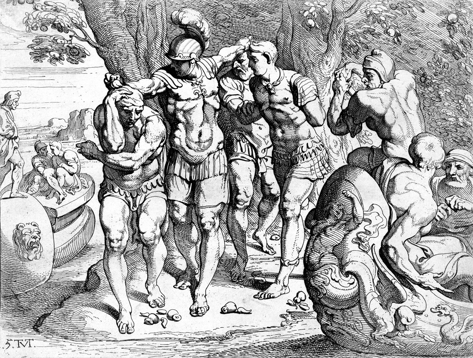 18th-century French engraving of Odysseus (Ulysses) on the island of the lotus-eaters.